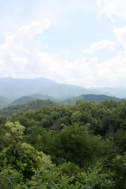 A mountain range in Montana.